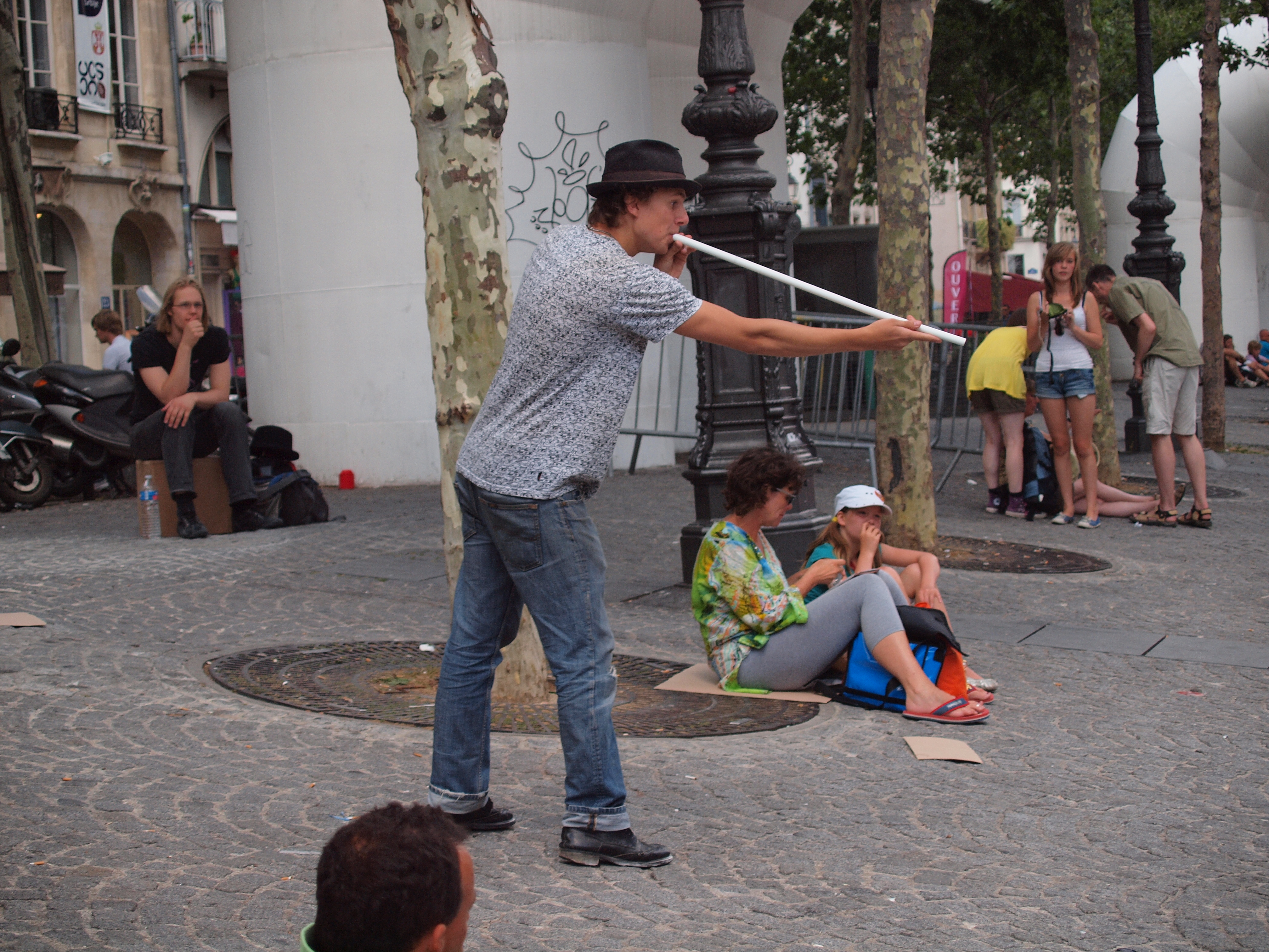 Pea shooter, Beaubourg, Paris.